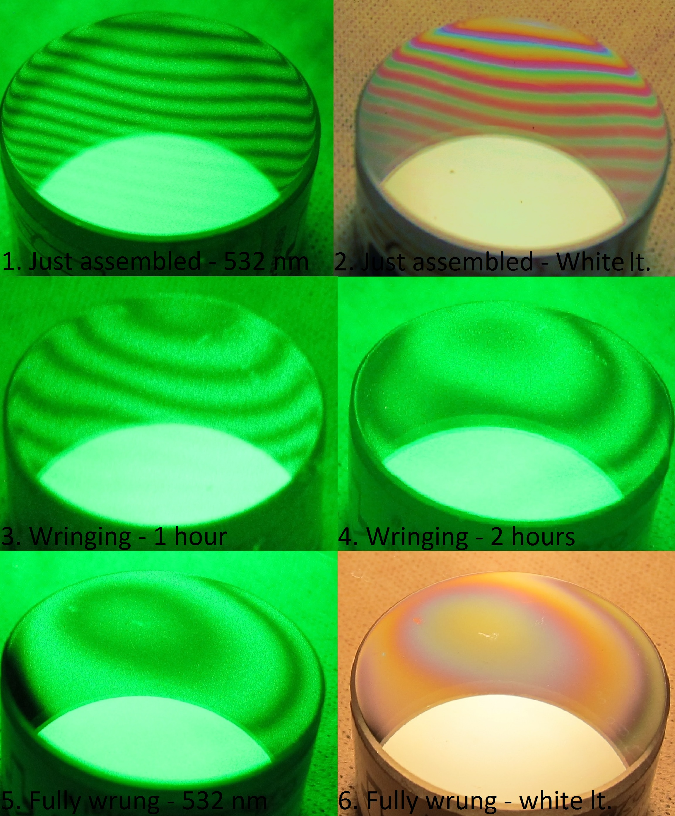 A precision glass window ground to a flatness of λ/10, resting upon an λ/10 optical flat, illuminated with both the green 532 nm light from a laser and white light from an incandescent bulb, showing interference fringes which reveal the unevenness of the surface. Image 1 shows that the fringes are fairly straight, with some small deviations, indicated that the surface of the window in very close to λ/10 flatness. The flat has slightly chamfered edges, which shows up as bends near the ends of the fringes. The bottom side of the flat is mirrored, which not ideal, masking some of the fringes. Image 2 shows the interference fringes in white light. Image 3 is after an hour of wringing, as the surfaces come closer to parallel. Image 3 is after 2 hours or wringing. Images 5 and 6 are taken after the surfaces have fully wrung, becoming parallel. Both the white-light test and the finger-pressure test show that the surface of the window is concave.